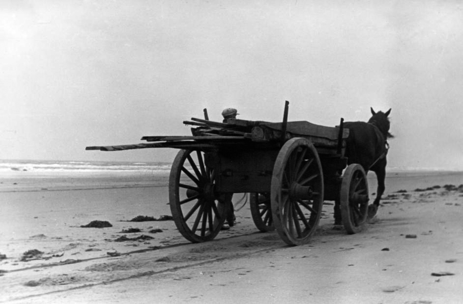 Wrecker with horse and wagon gathering wreckage on a Dutch beach, 1932.